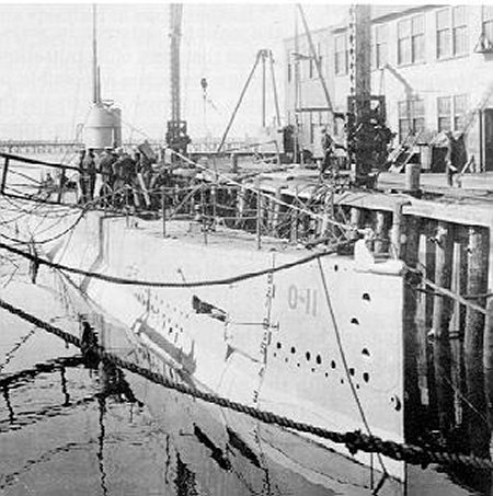 USS O-11 (SS-72) picture. Taken while being constructed at the Lake Torpedo Boat Factory in Bridgeport, CT. circa 1918-24. US Navy photo